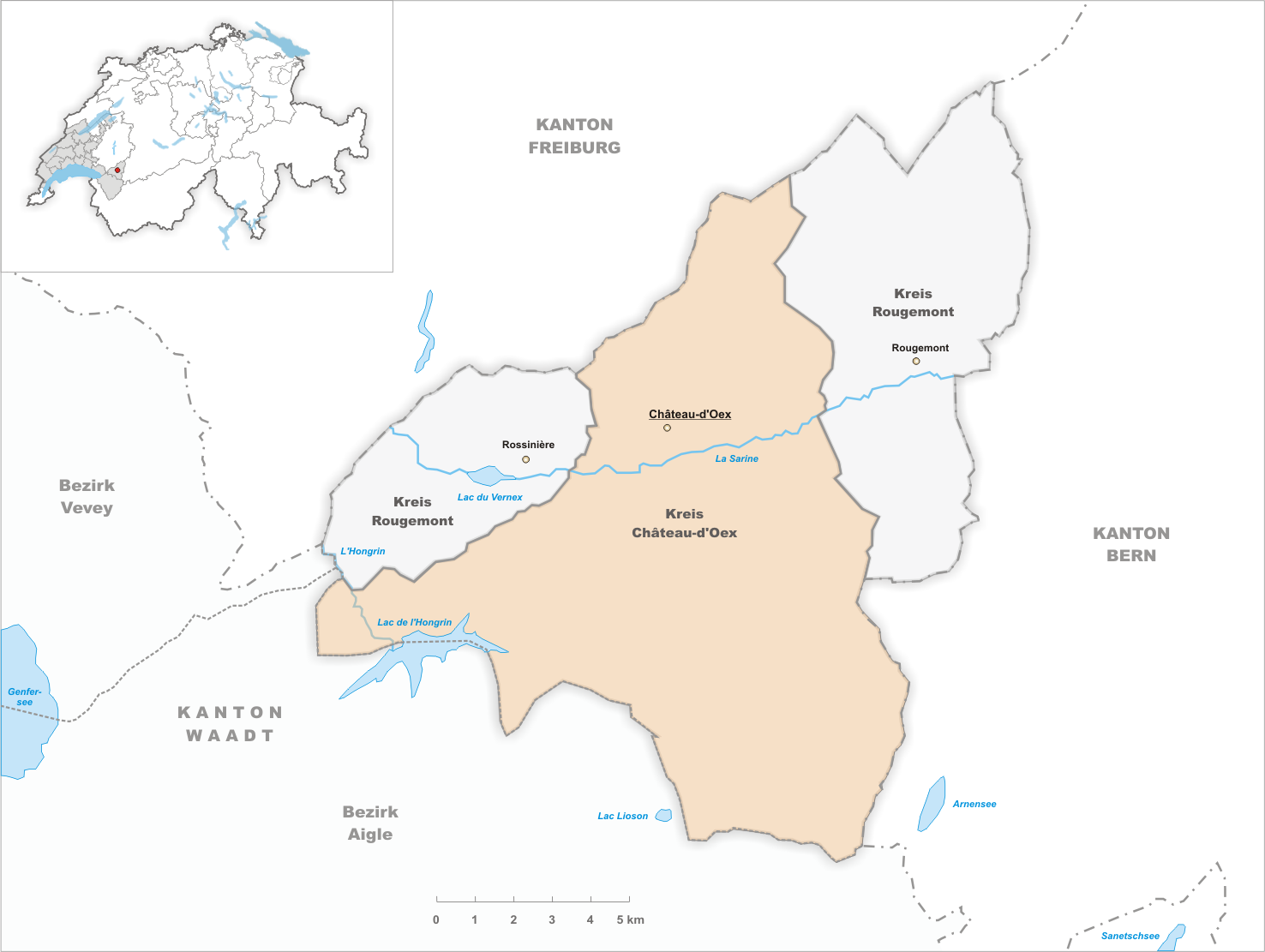 Municipality Château-d'Oex